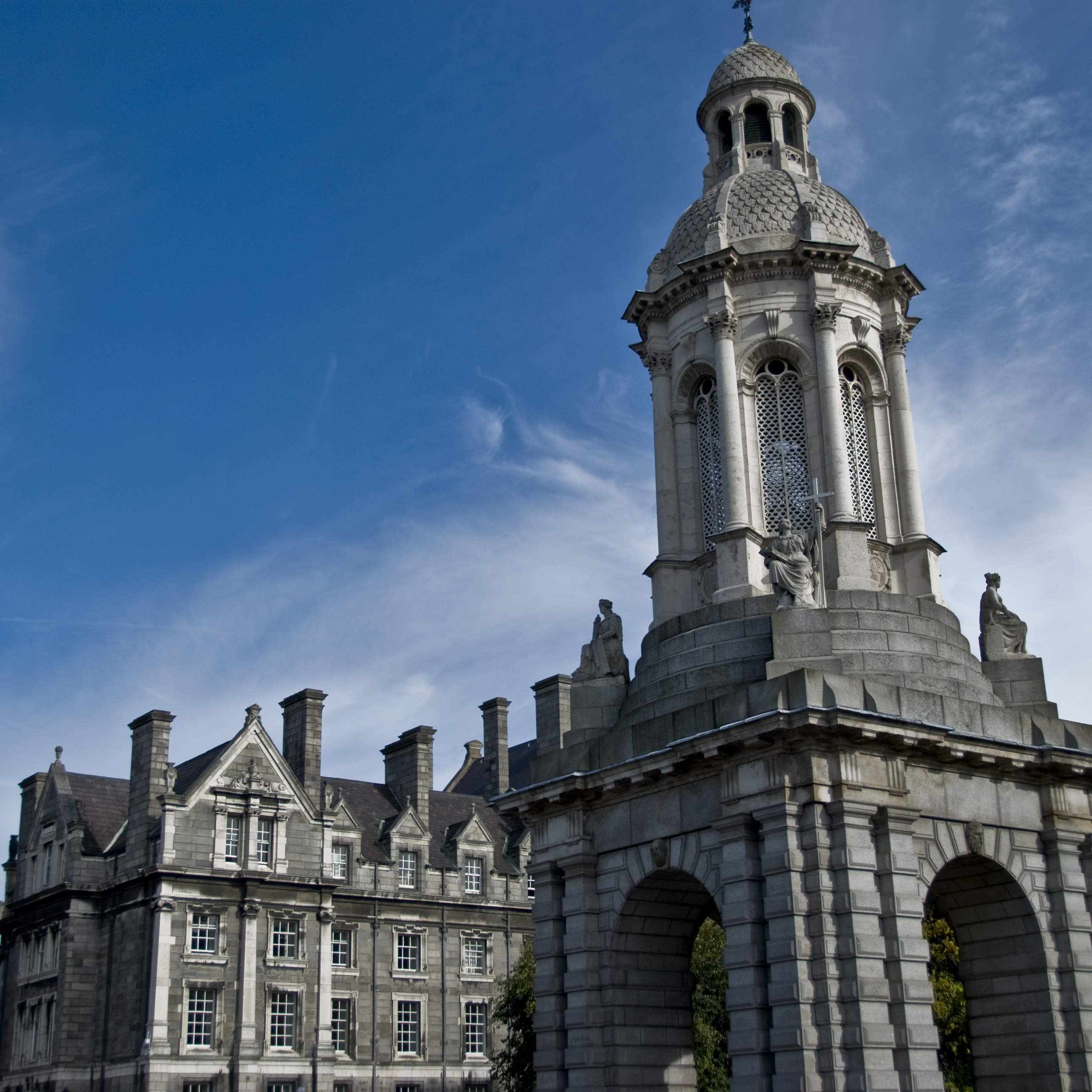 Front Square at Trinity College, Dublin, Ireland with Campanile and Graduate Memorial Building